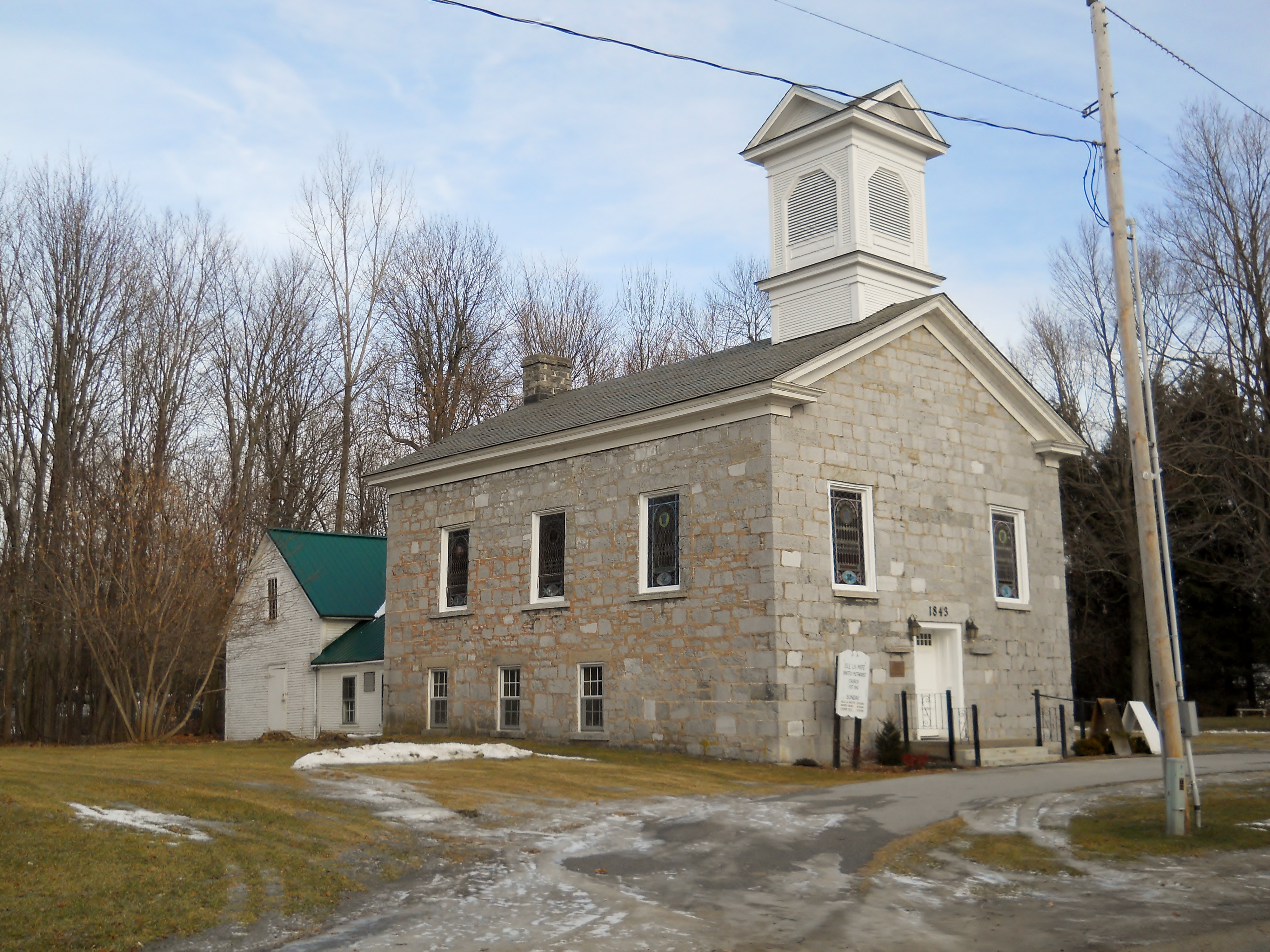 The Isle La Motte Methodist Church in Isle La Motte, Vermont